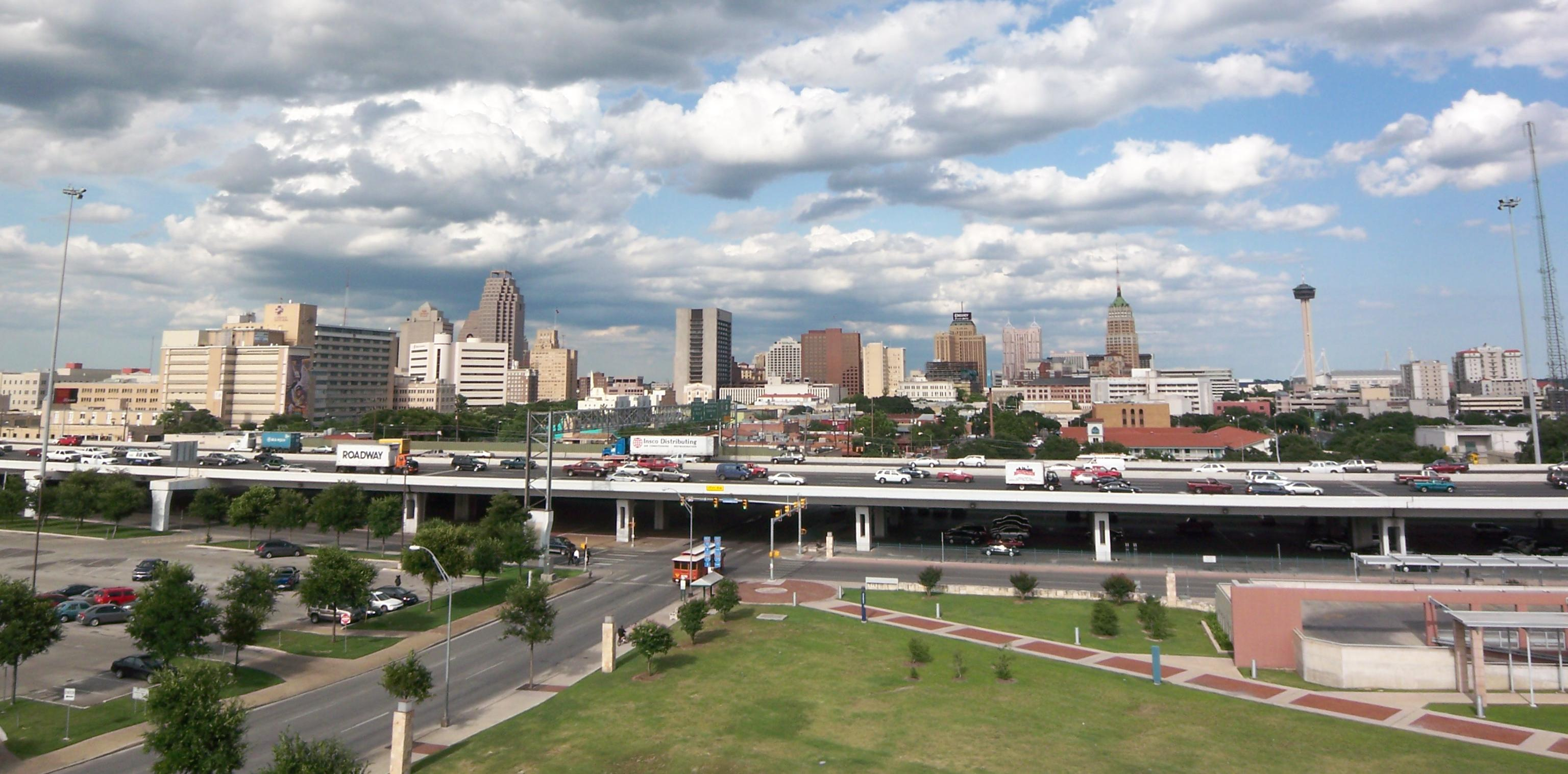 Downtown San Antonio, Texas. Photo taken June 4, 2007 from a balcony on UTSA's Downtown Campus. Category:Images of San Antonio, Texas